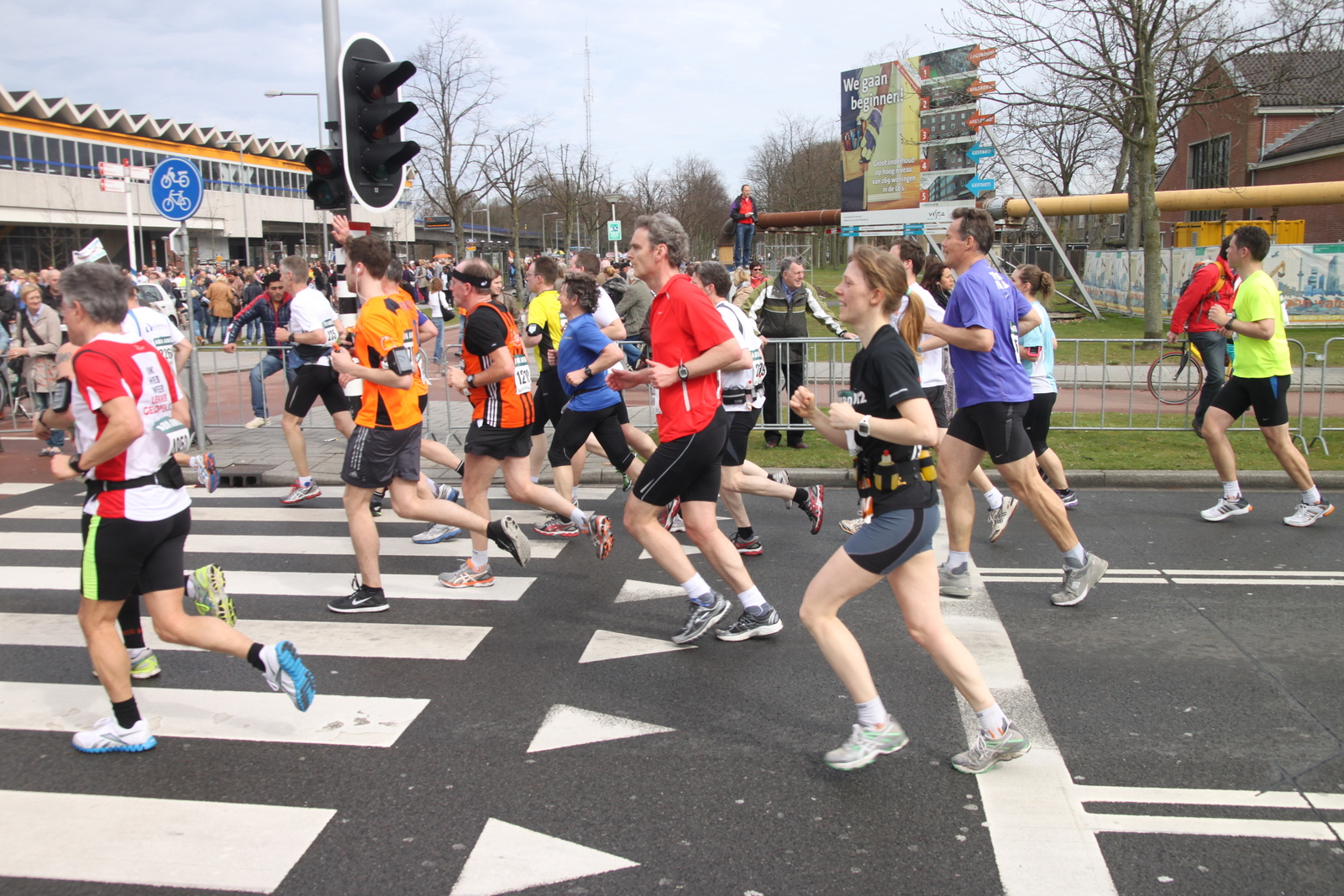 Runners during the marathon in Rotterdam